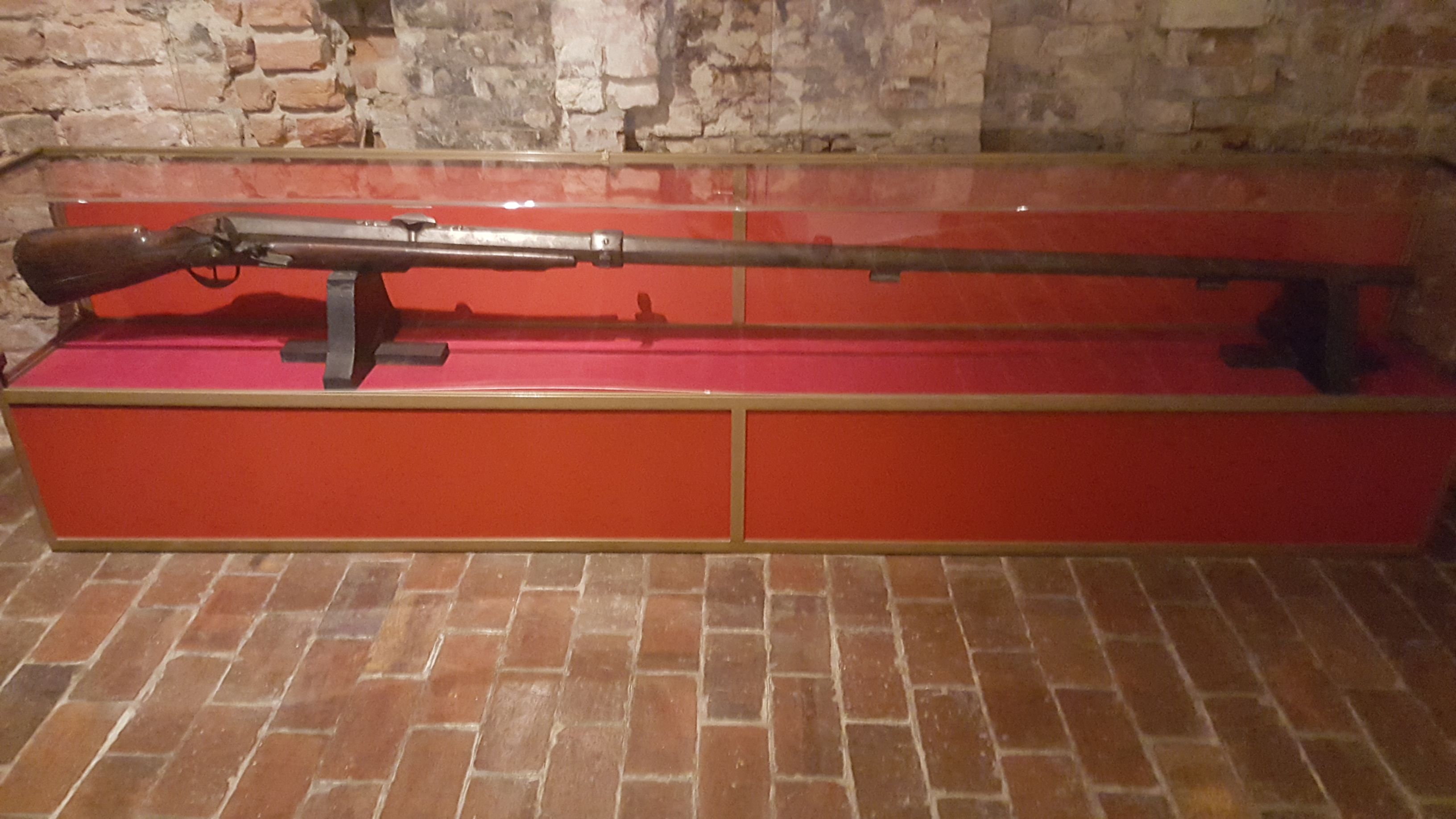 A defensive gun held in the lower level armory of the palace.